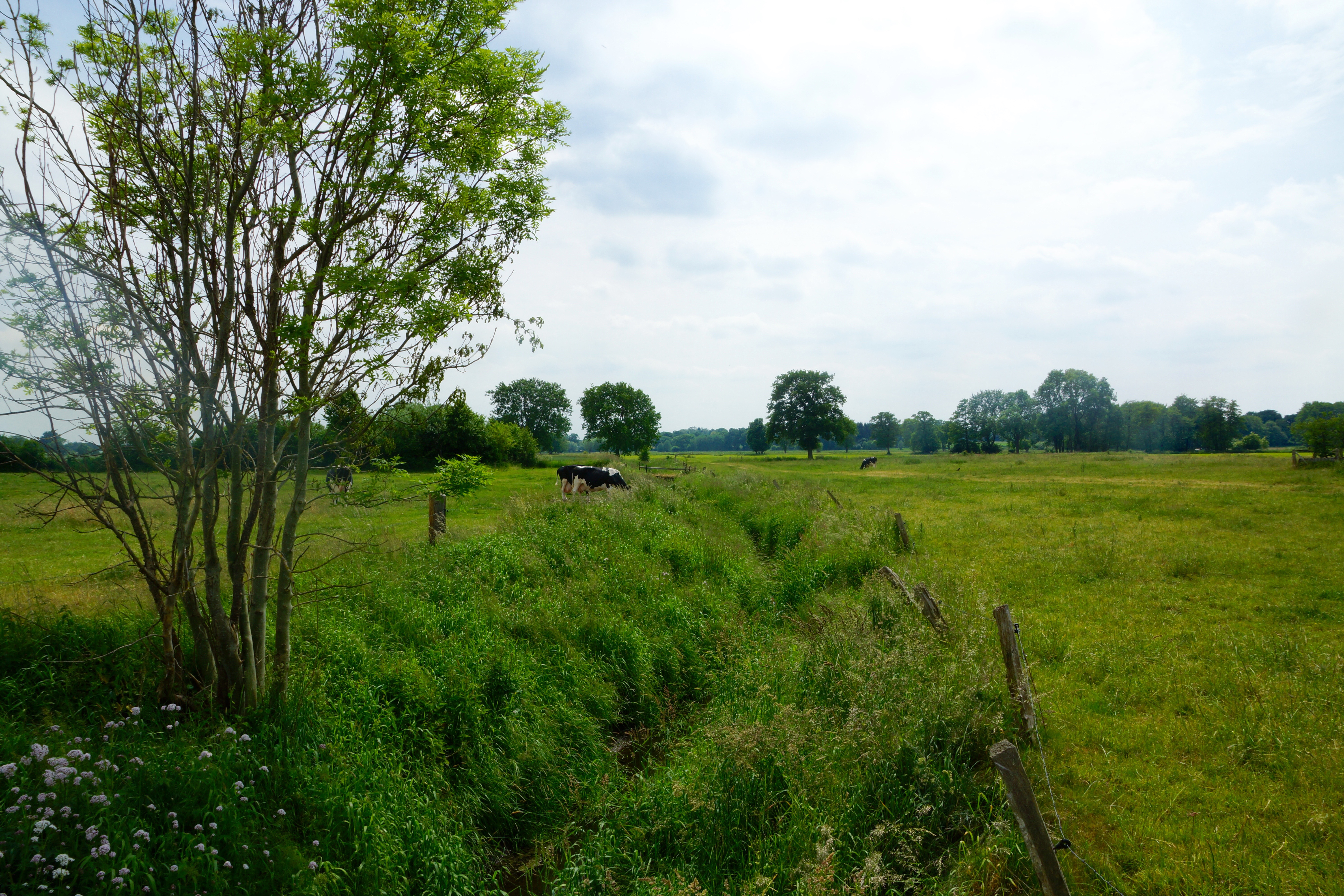 Tremsbüttel (Horst (Tremsbüttel)), Germany: The river Groot Beek